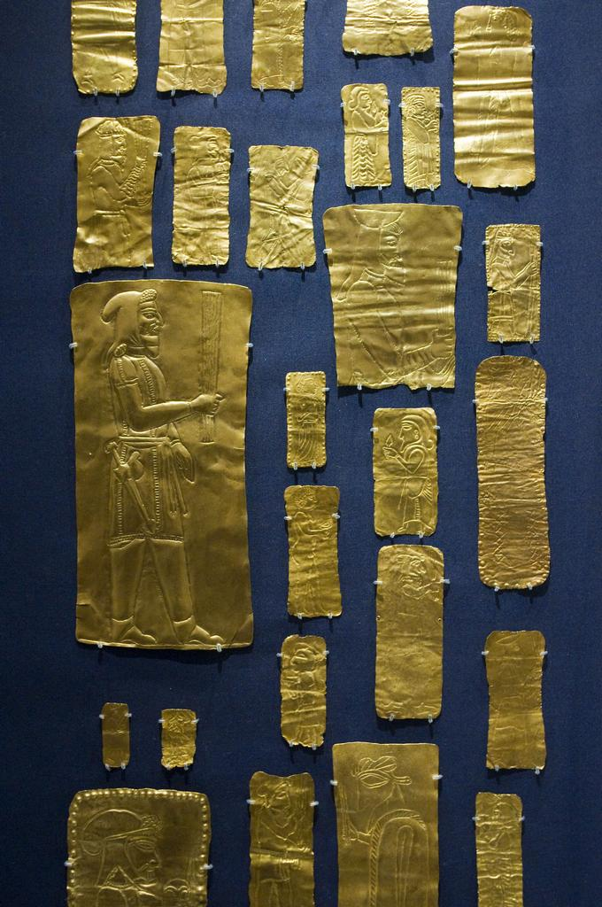 A collection of Achaemenid era chopped gold pieces from the Oxus Treasure.